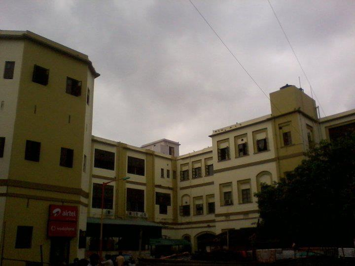 Surgery Block